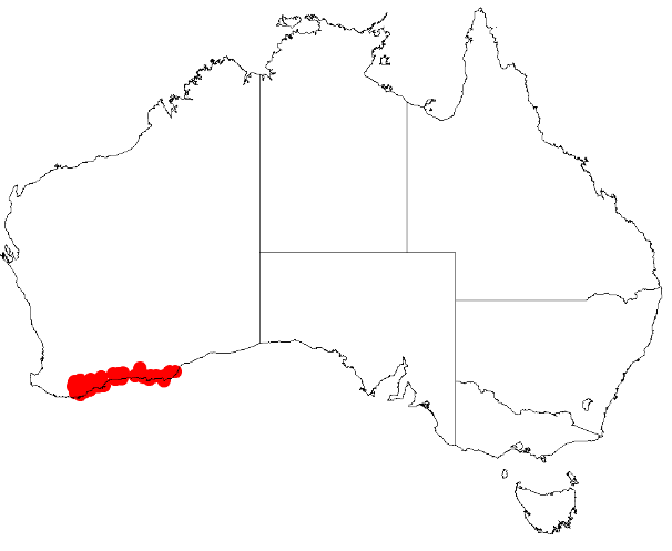 Acacia aemula Occurrence data from Australasia Virtual Herbarium downloaded from on 8 December 2018